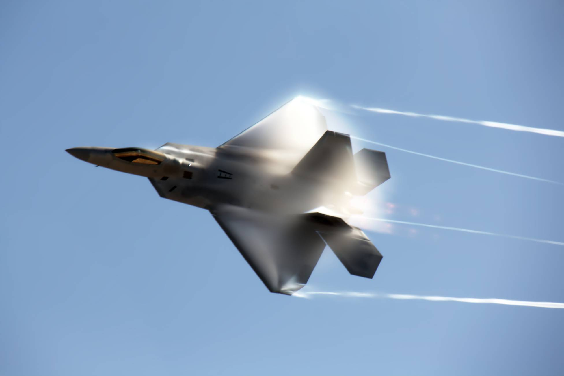 Photo of an F-22 Raptor at 2008 MCAS Miramar Airshow at the Marine base in Miramar,_San_Diego,_California. Image taken with Canon EOS Digital Rebel XTi with Sigma 18-200mm zoom lens. Photo taken in RAW format and converted using Ufraw.